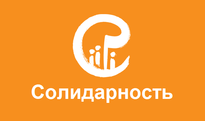 Flag The democratic movement SOLIDARNOST (Russia)